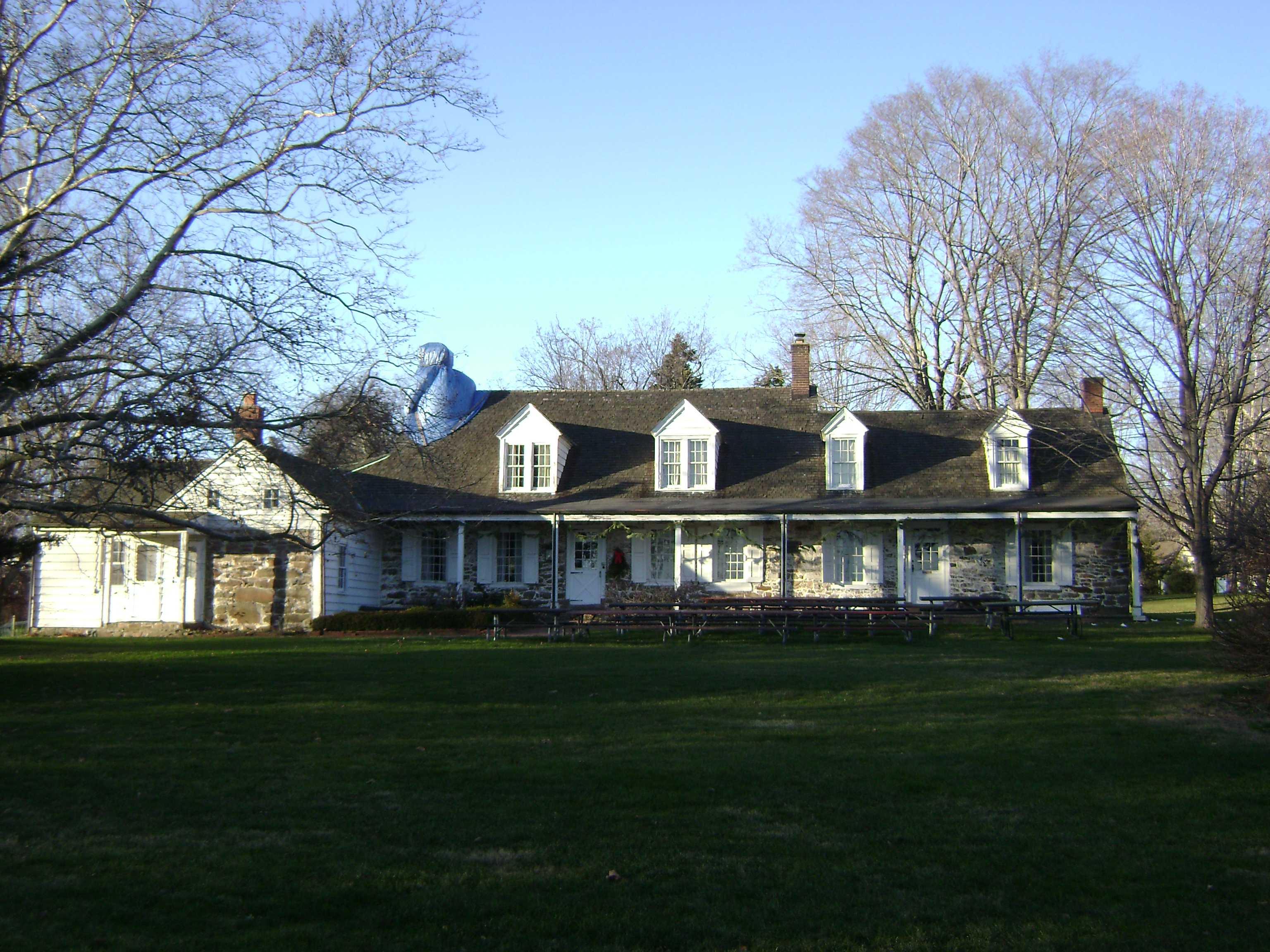 The Van Riper-Hopper House, which was constructed in 1786, is seen from the front in mid-December, 2011. The house, which is listed on both the National and New Jersey Register of Historic Places, is currently used as a museum by the Township of Wayne, New Jersey.